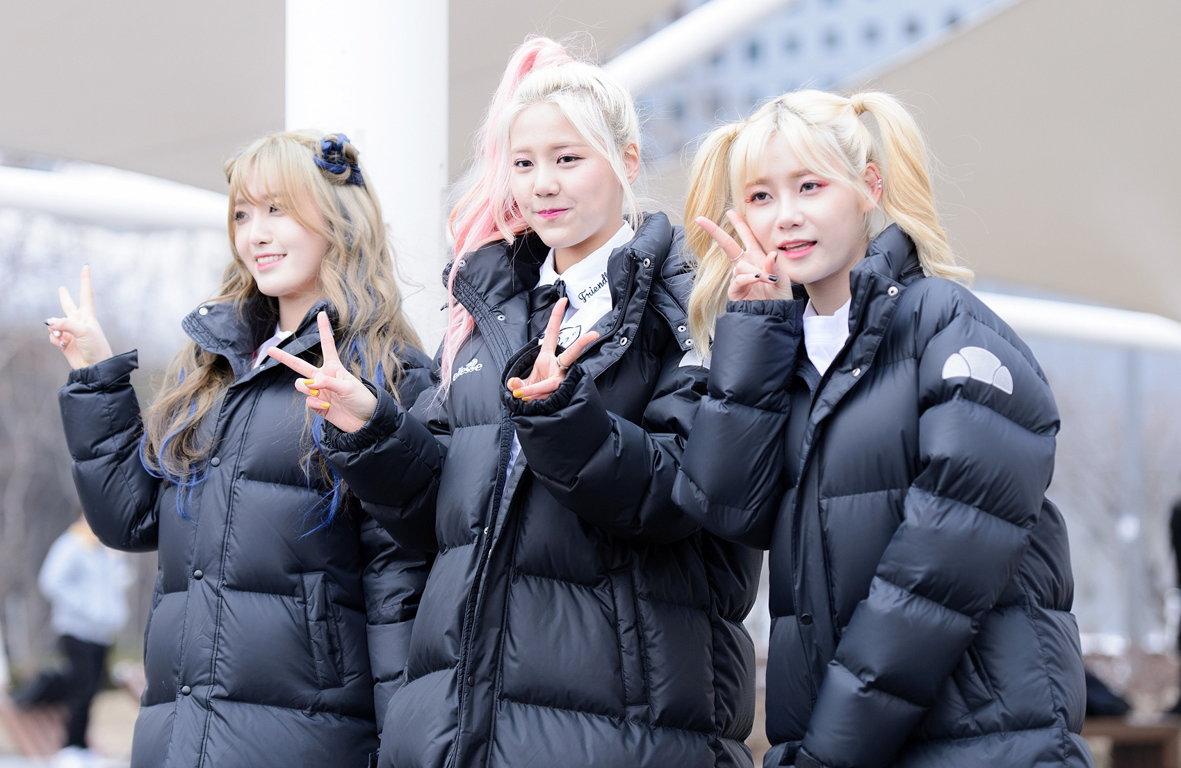 AOA Cream at a mini fan meeting on March 12, 2016.